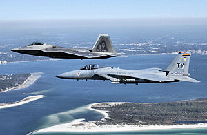 F-15 and F-22 at Tyndall AFB, Florida